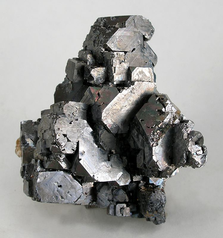 Calcite, Galena Locality: Elmwood mine, Carthage, Central Tennessee Ba-F-Pb-Zn District, Smith County, Tennessee, USA (Locality at ) Size: small cabinet, 6.9 x 6.0 x 4.4 cm Galena and Calcite This is an aesthetic floater cluster of stacked, modified cubes of galena, up to 2.0 cm across. The battleship gray color and very good luster are supplemented by several, gemmy, golden calcite crystals, to .7 cm across, on the back side of the specimen. Complete-all-around.